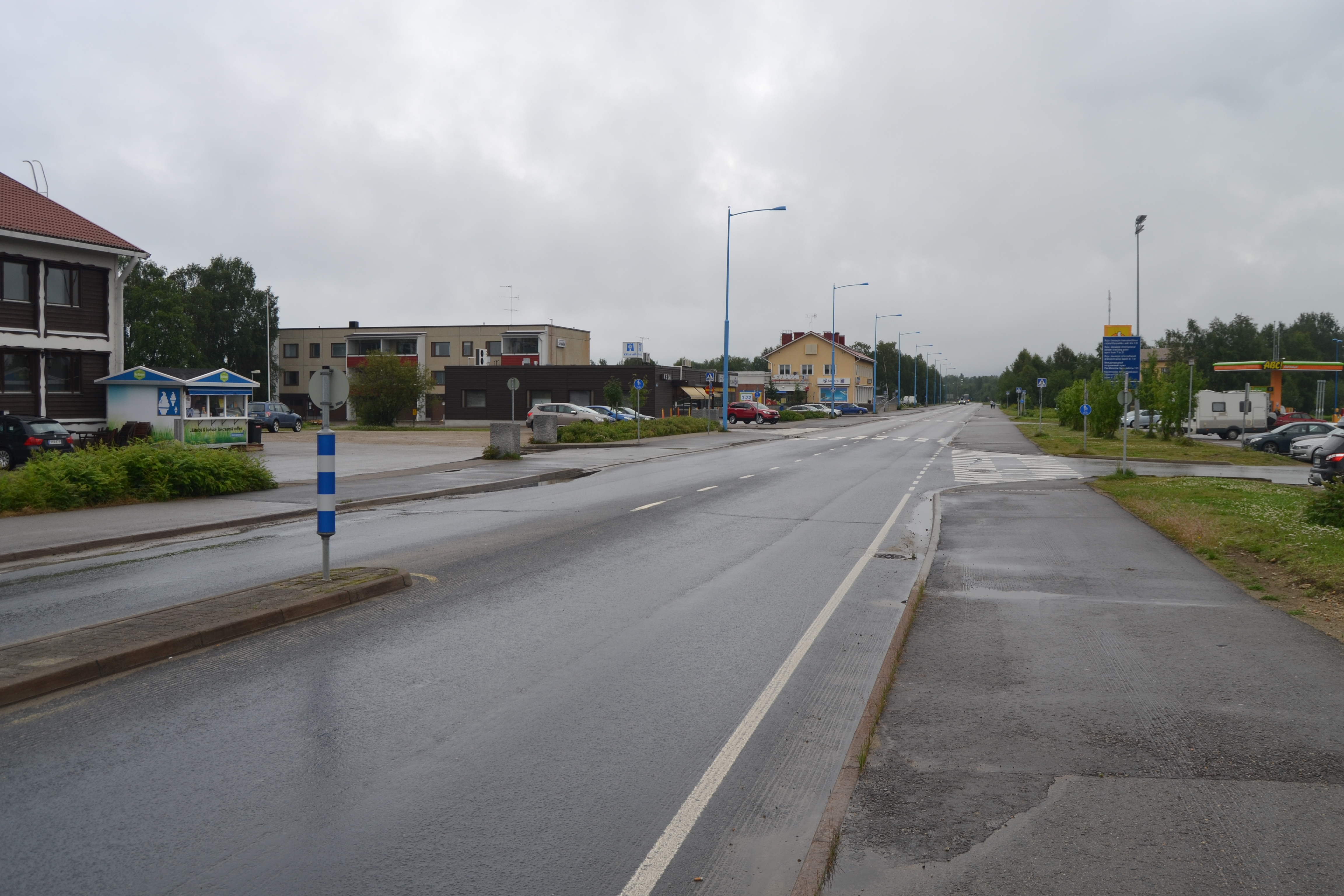 National road 91 in Ivalo, Inari, Finland